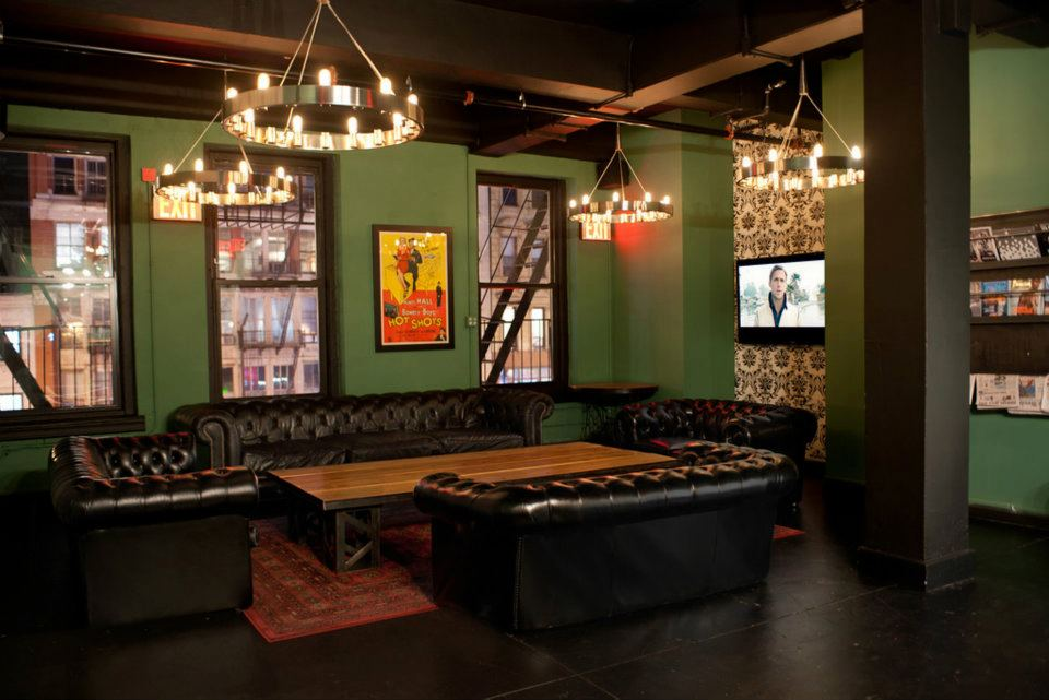 Picture of The Bowery House lobby.